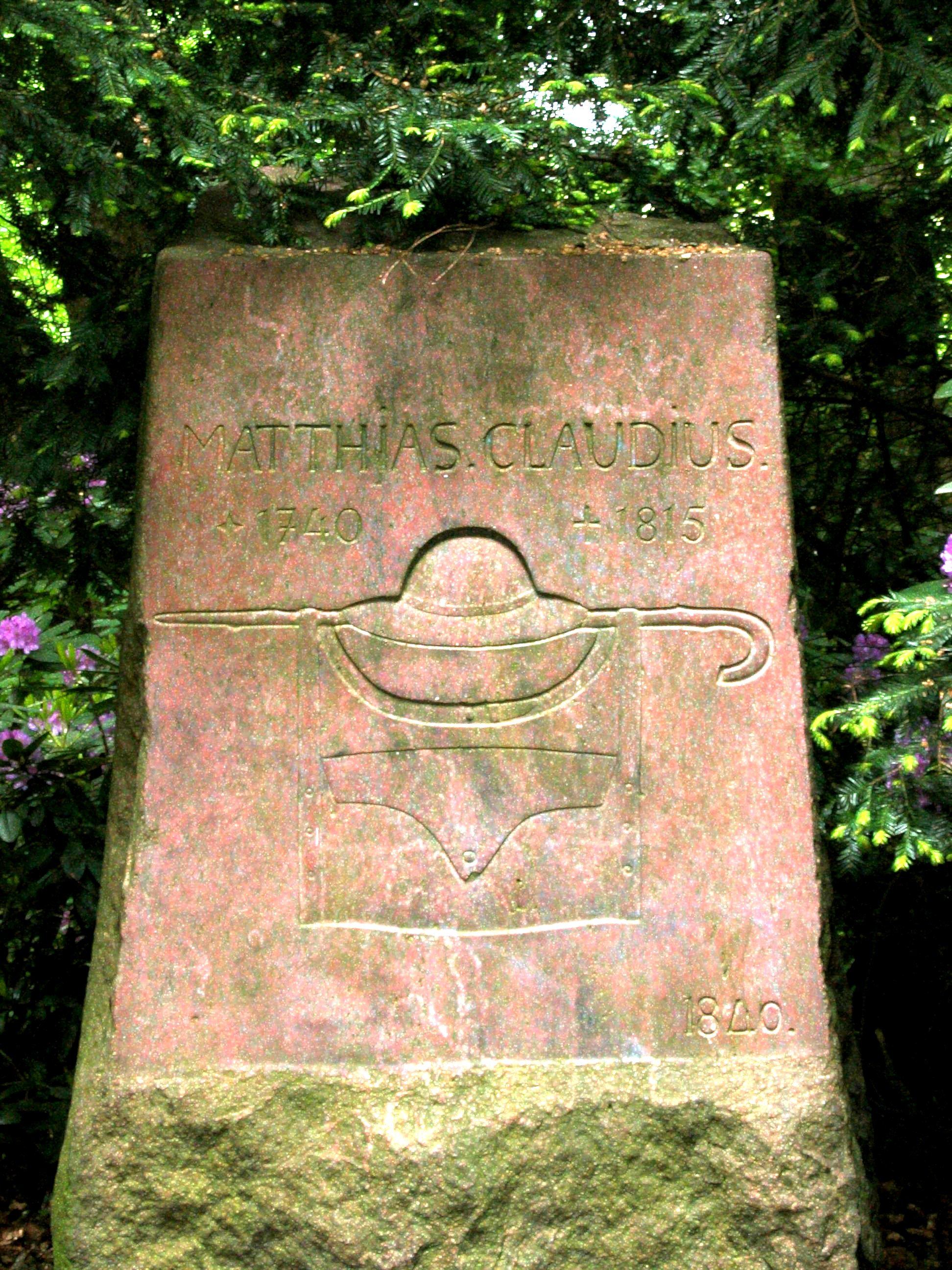 Memorial Matthias Claudius (1740-1815), Hamburg, Germany.